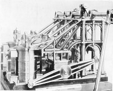 Photograph concerning a section of Mona's Isle's engine.